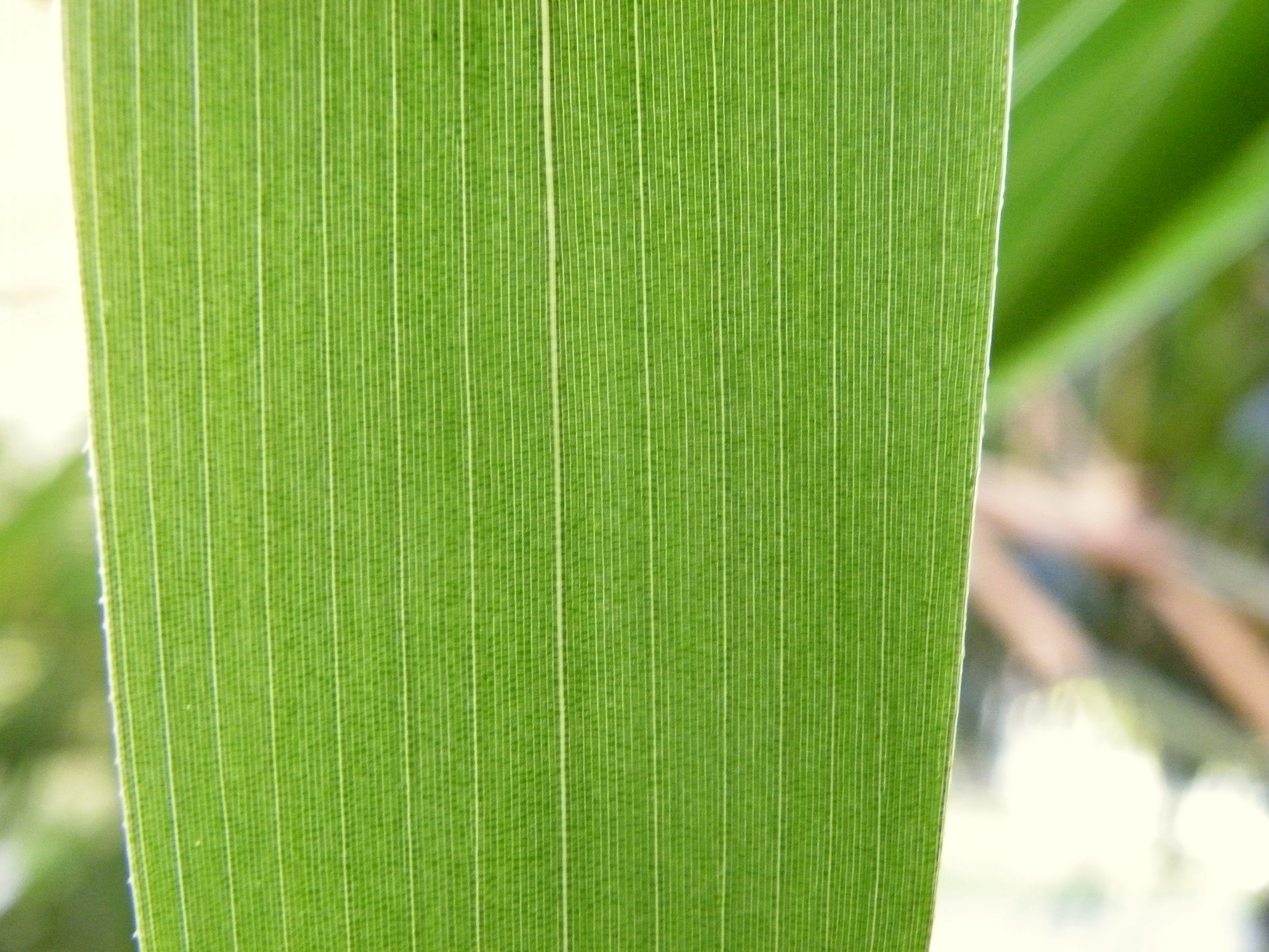 Pseudosasa japonica, common names Arrow bambooand Japanese arrow bamboo, is a species of bamboo, growing to 3 m. This media file is produced by Wikipedian in Residence in Botanical Garden Jevremovac in 2015.